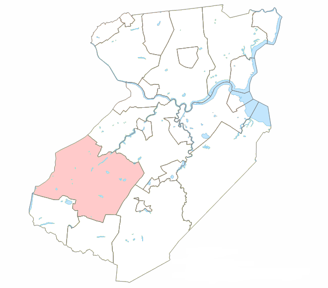 Description: Map of South Brunswick Township in Middlesex County, New Jersey Source: User:Schzmo (own work, Dec. 2006) Adapted from Image:Middlesex County, New Jersey Municipalities.png by Jim Irwin